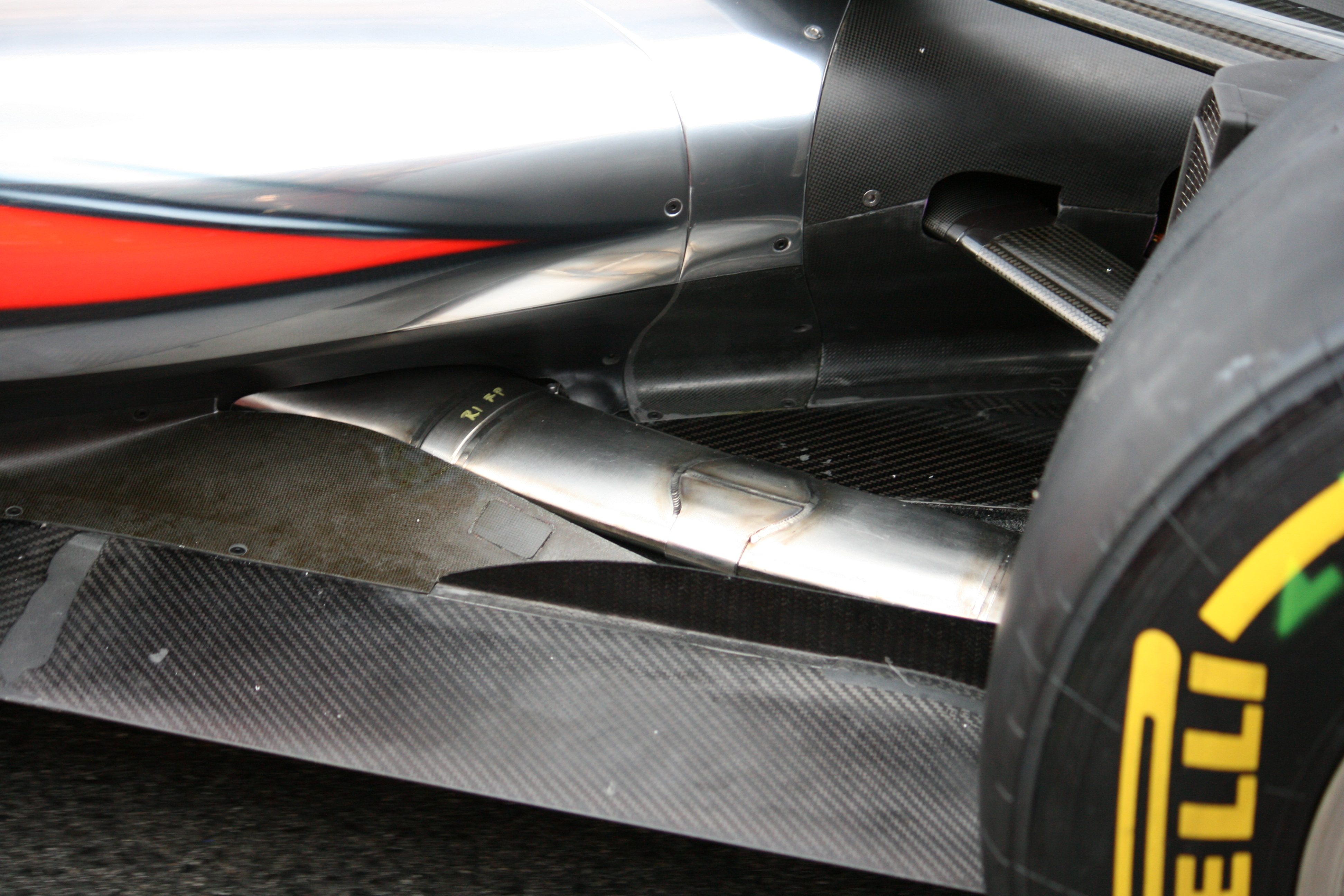 Rear suspension of McLaren MP4-26, 2011 Spanish Grand Prix